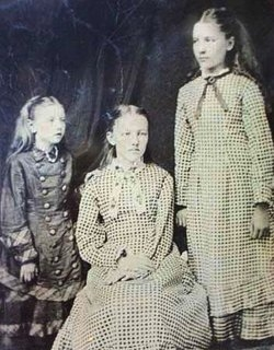 Carrie, Mary and Laura Ingalls